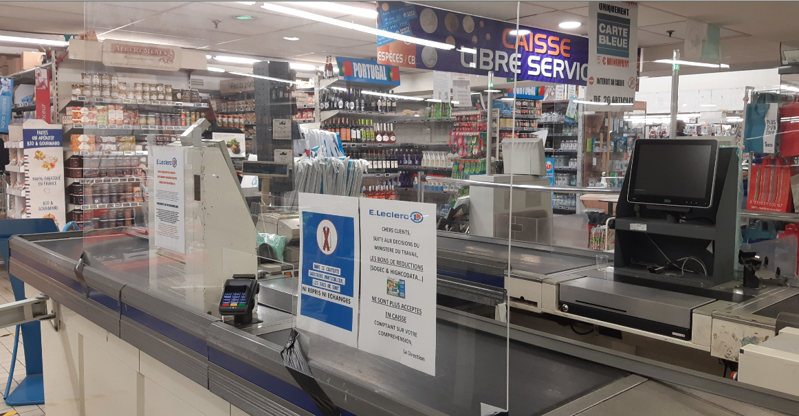 supermarket till, with customer warning and fitted with plexiglass screen, in the Parisian suburbs, France